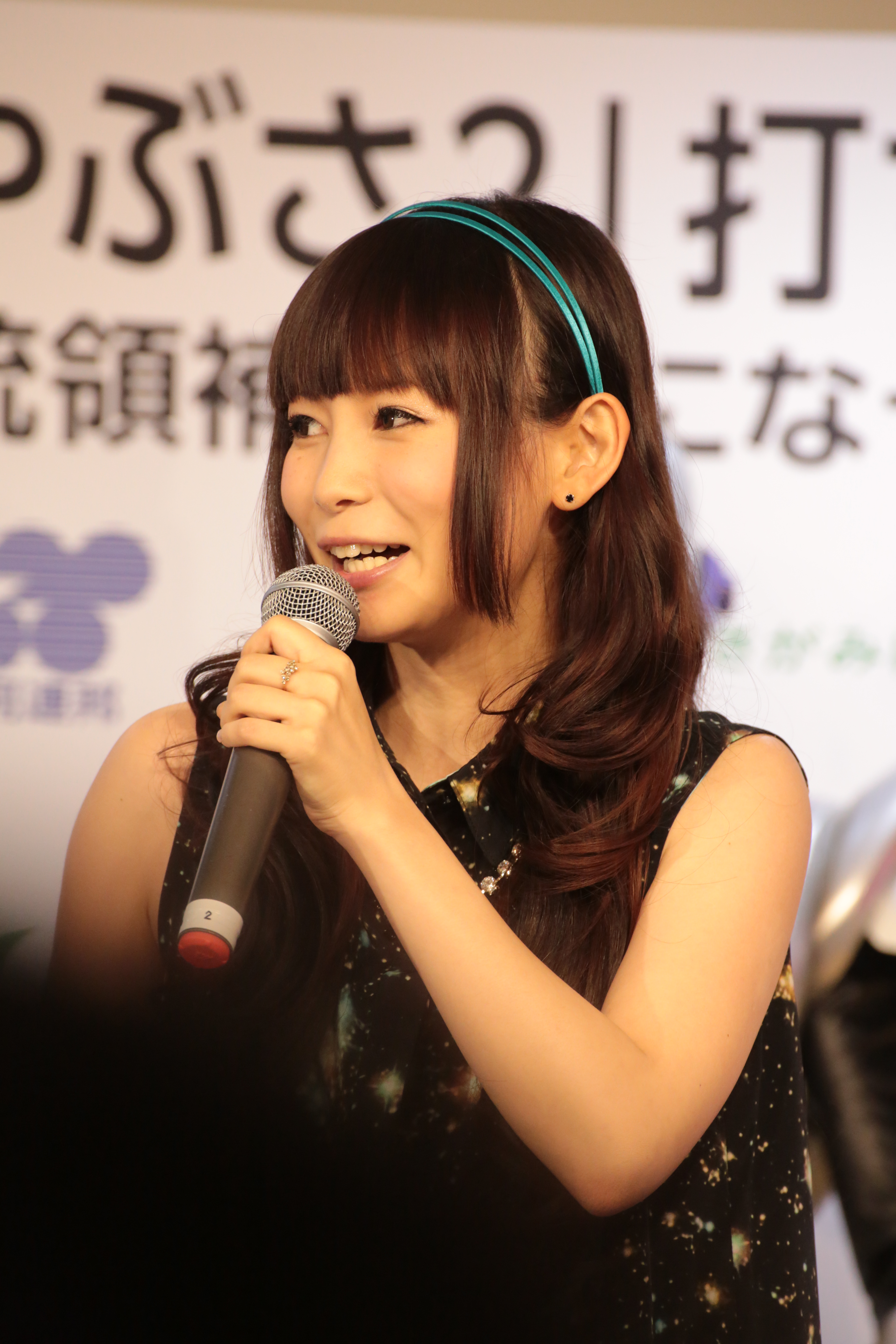 by Norio NAKAYAMA